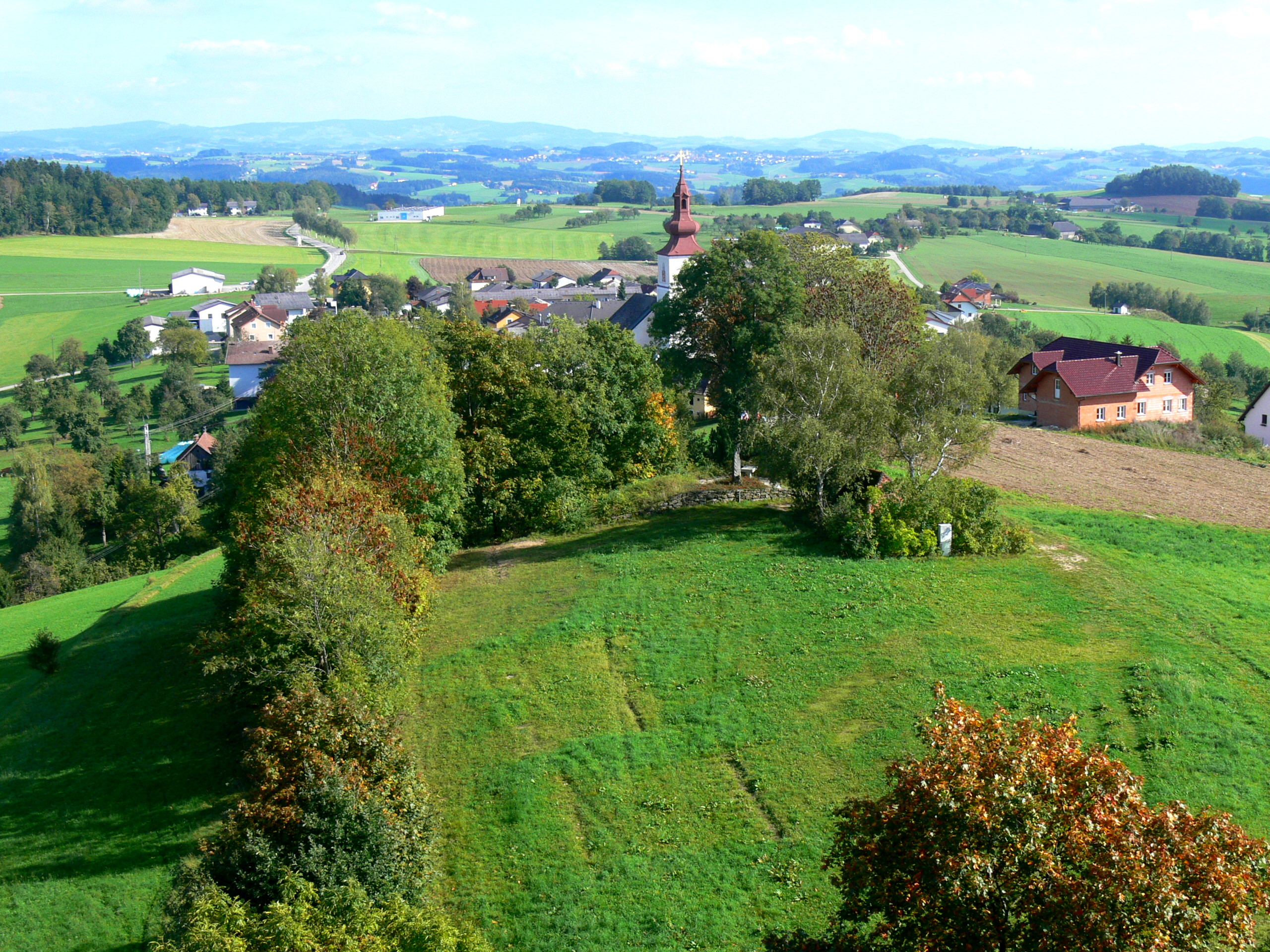 Kirchberg. View to town and "Burgstall" ( remnants of a medieval castle )